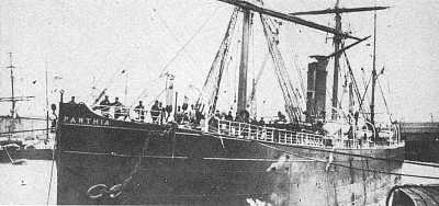 The SS Parthia as seen in Cunard service. Parthia served with Cunard between 1870 and 1883, dating this photograph around that era.